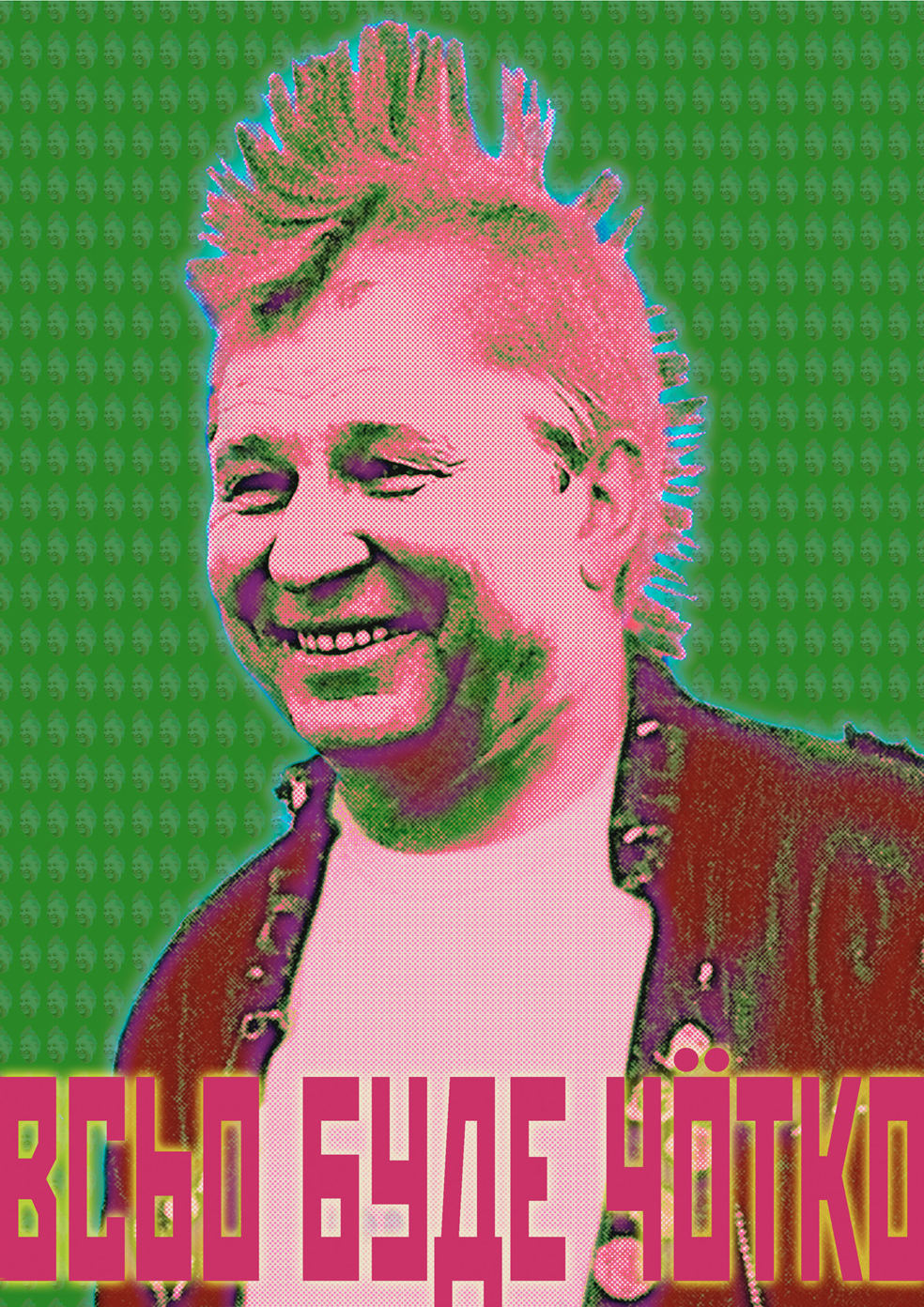 Poster for presidential elections, Ukraine, 1999